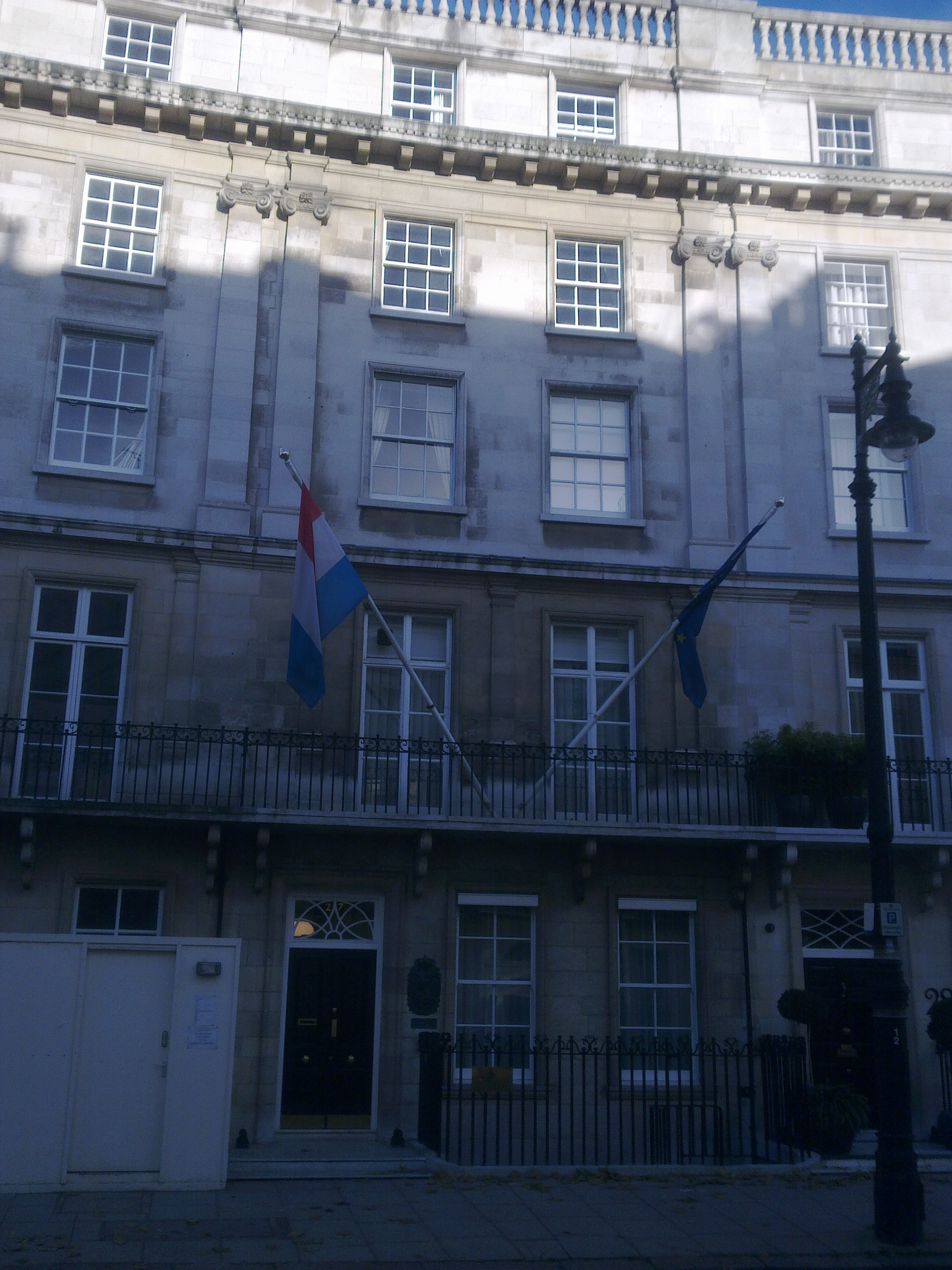 Embassy of Luxembourg, London 1